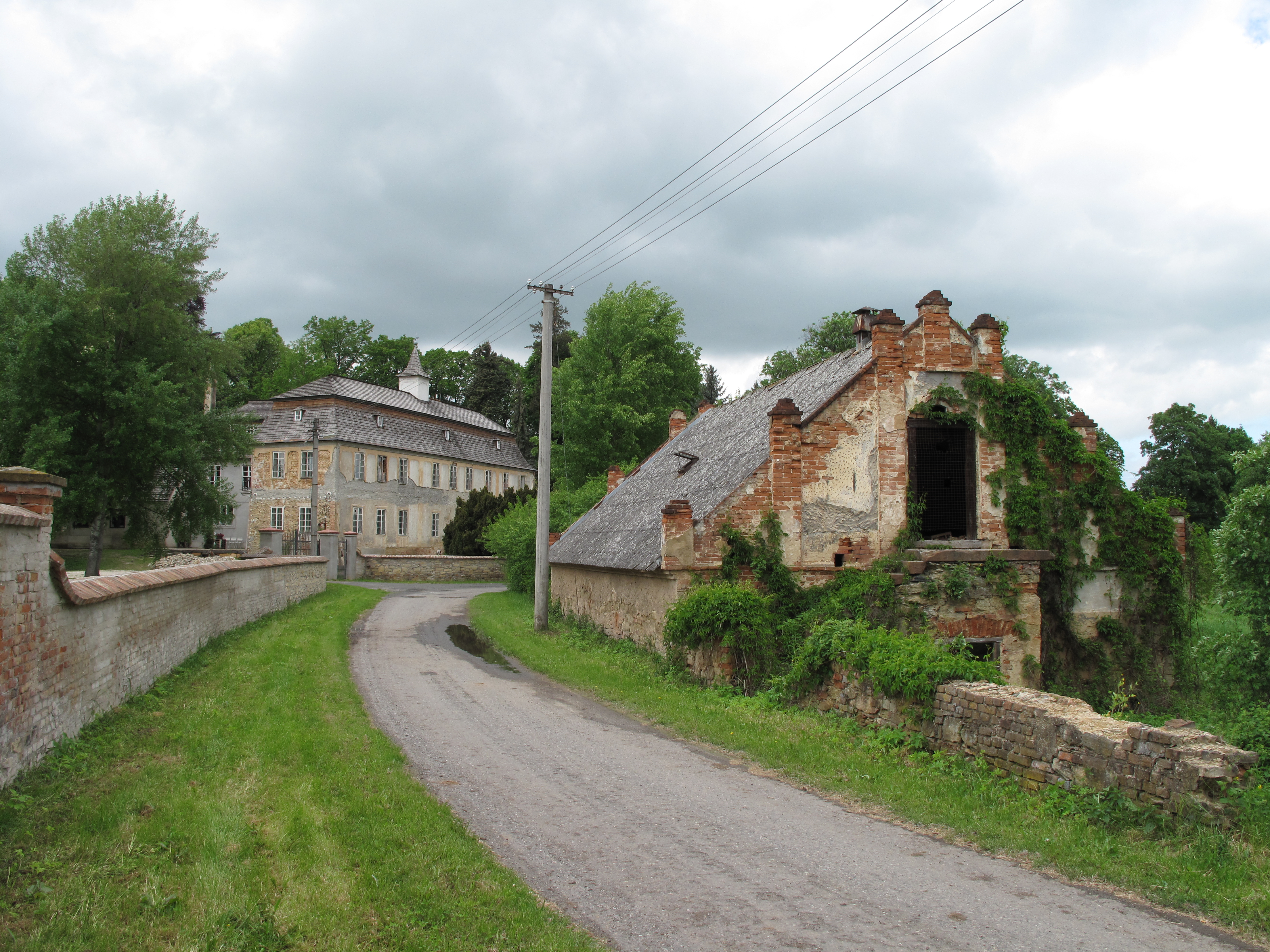 Road to palace in Molitorov village, Kolín District, Czech Republic.